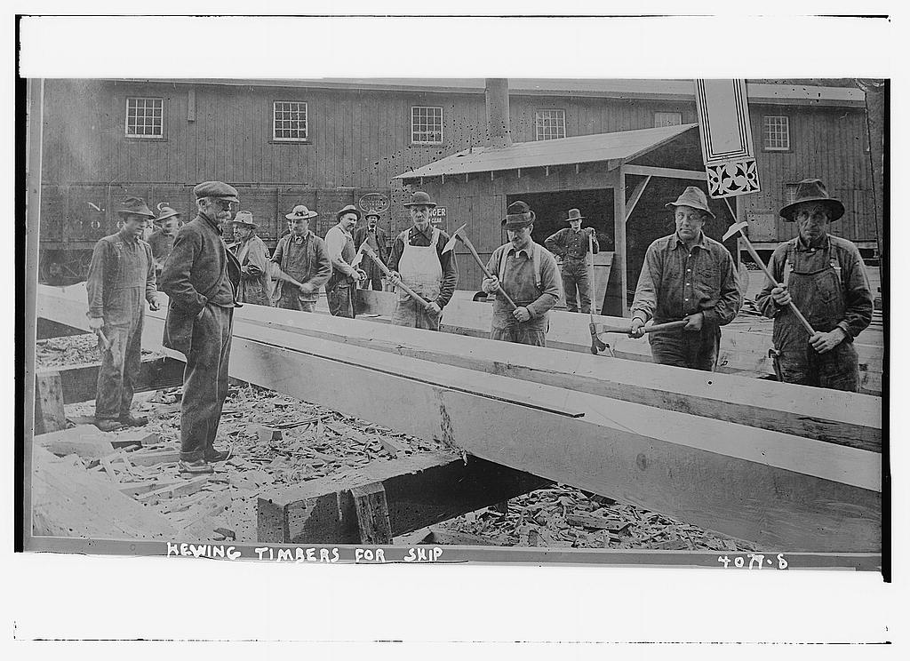 Bain News Service,, publisher. Hewing timber for ship [between ca. 1915 and ca. 1920] 1 negative : glass ; 5 x 7 in. or smaller. Notes: Title from unverified data provided by the Bain News Service on the negatives or caption cards. Forms part of: George Grantham Bain Collection (Library of Congress). Format: Glass negatives. Repository: Library of Congress, Prints and Photographs Division, Washington, D.C. 20540 USA, General information about the Bain Collection is available at Higher resolution image is available (Persistent URL): Call Number: LC-B2- 4079-8